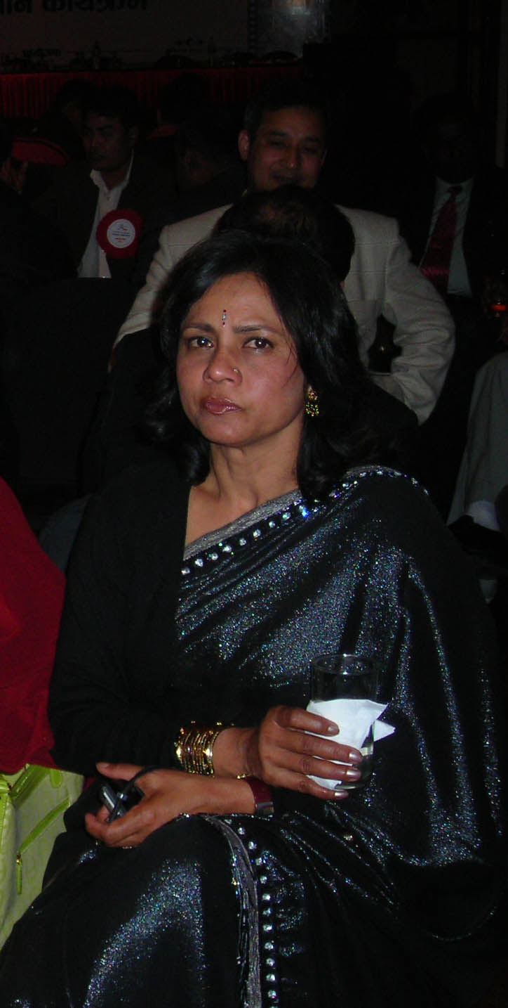 Sushila Rayamajhi in a program in Kathmandu in 2007.